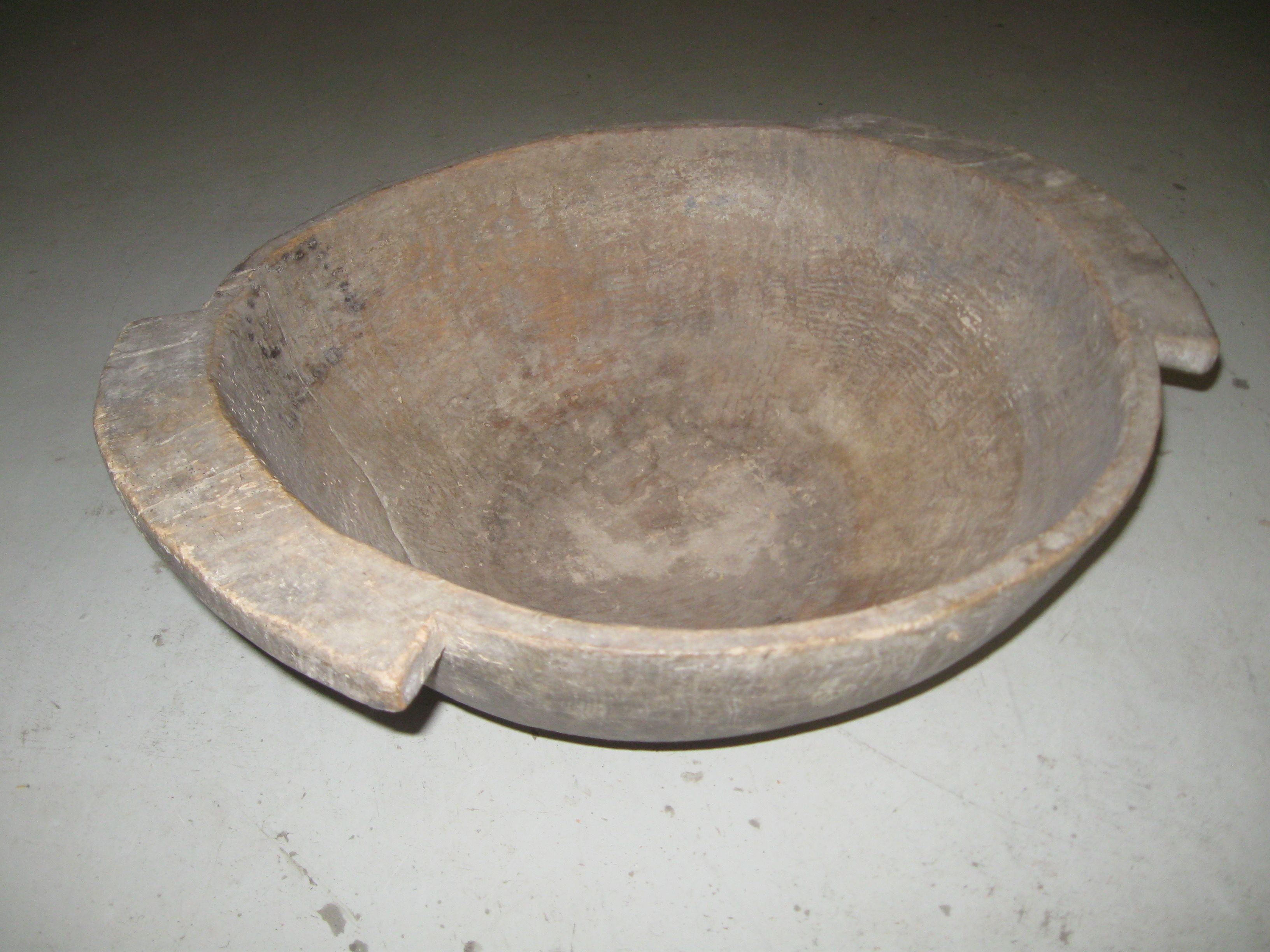 Wooden kitchenware for formulation of round loaves, at batch of bread on farms.